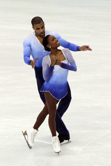 Vanessa James and Yannick Bonheur at the 2010 Winter Olympics.